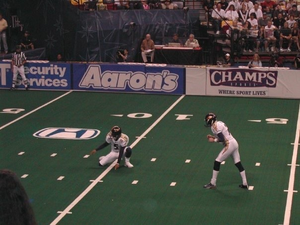 Clay Rush ArenaBowl XIX Colorado Crush